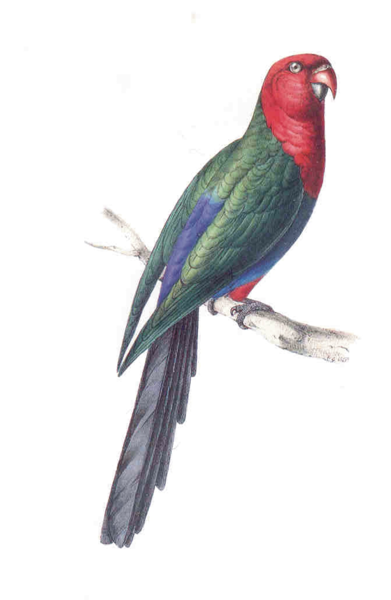 Drawing of Alisterus amboinensis from William J. Swainson, Zoological Illustrations Volume 1 from the 1820's.